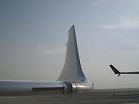 Close view of a winglet on the wing-tip of a "Longhorn" wing.